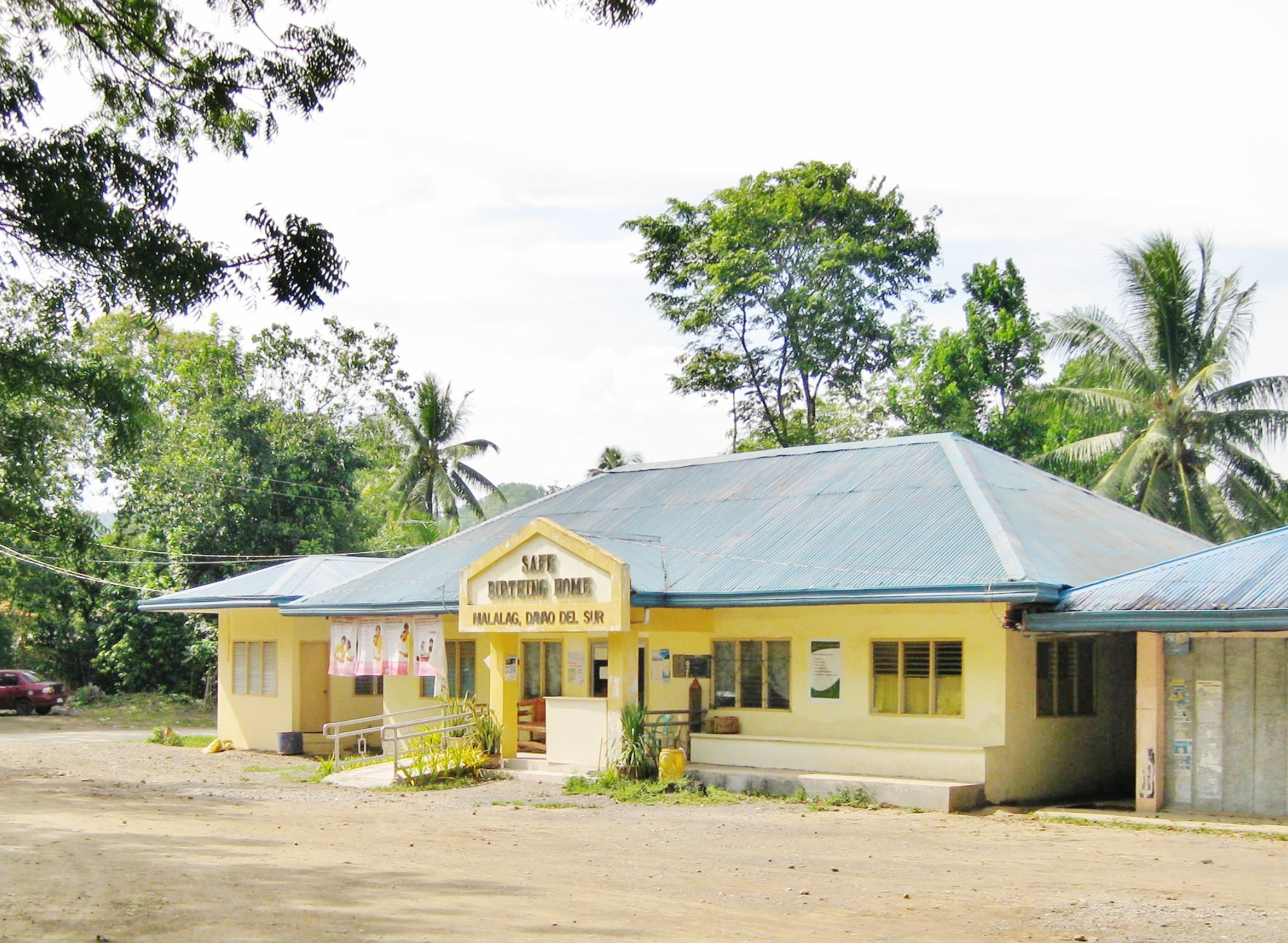 Malalag, Davao del Sur